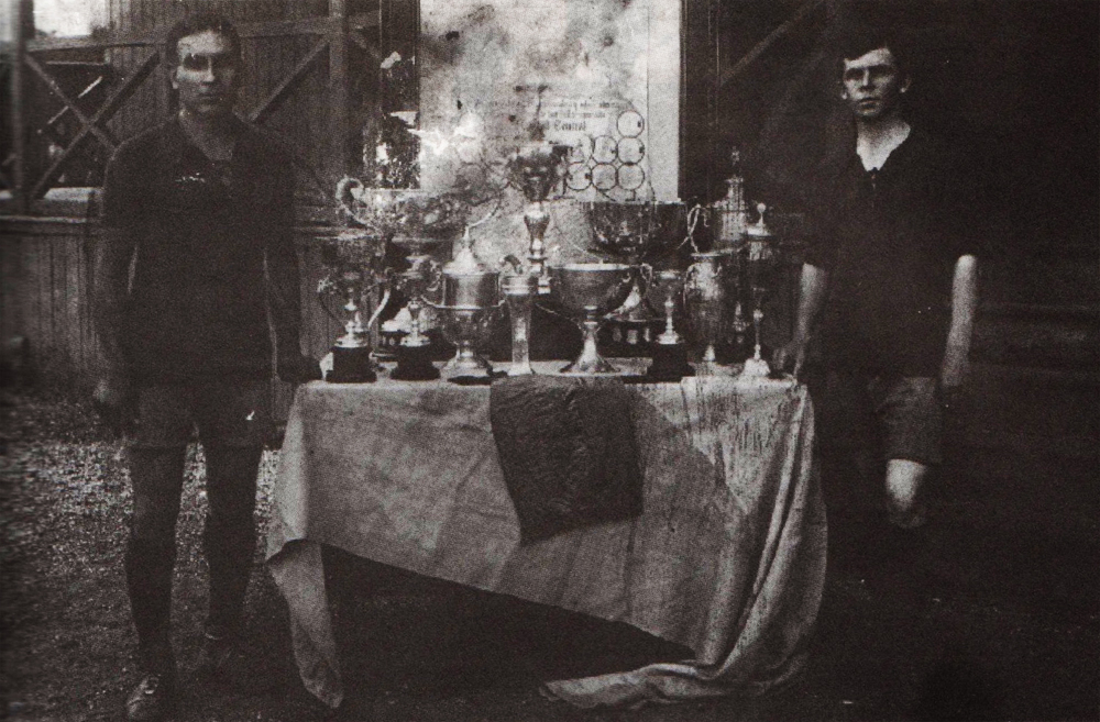 Players of Rosario Central, Zenón Díaz and Harry Hayes, posing with the trophies won by the team.